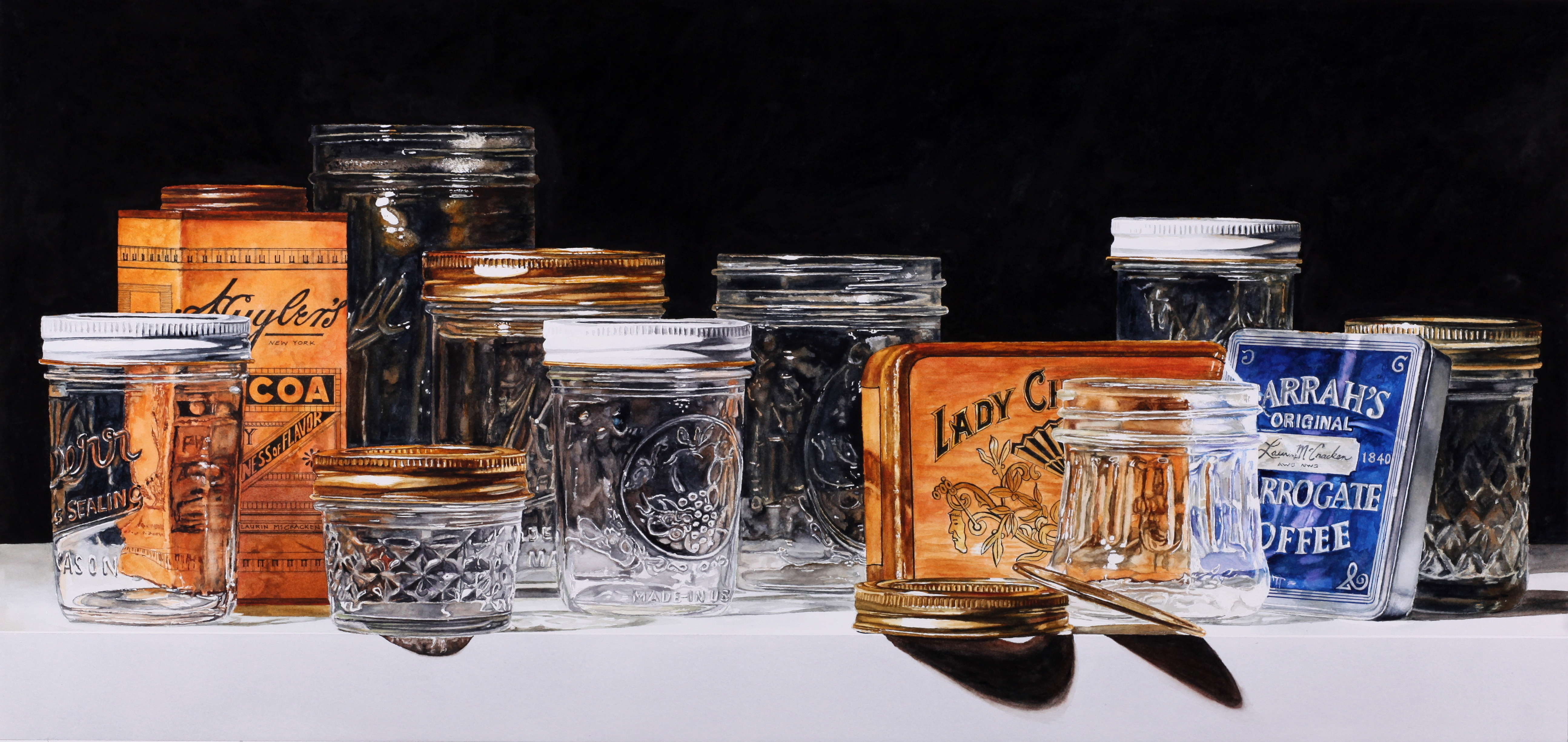 Lady Churchill Cigars by Laurin McCracken